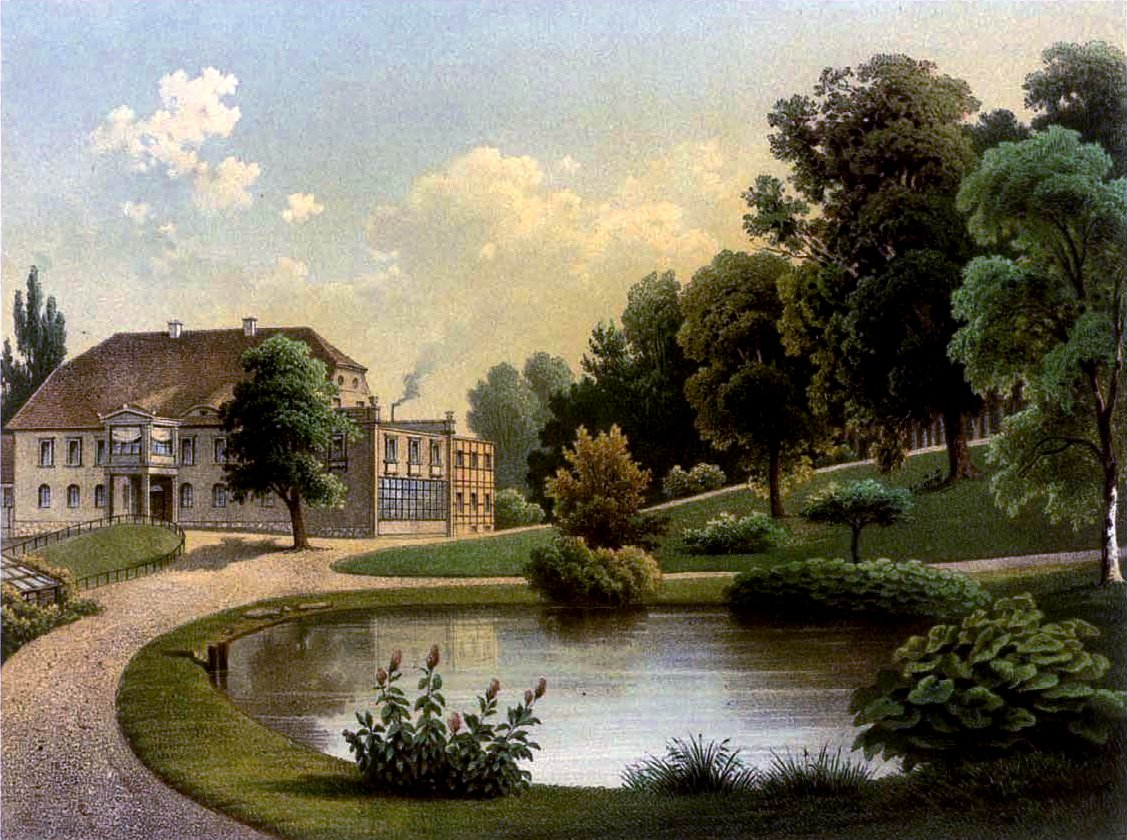 Kamienny Most